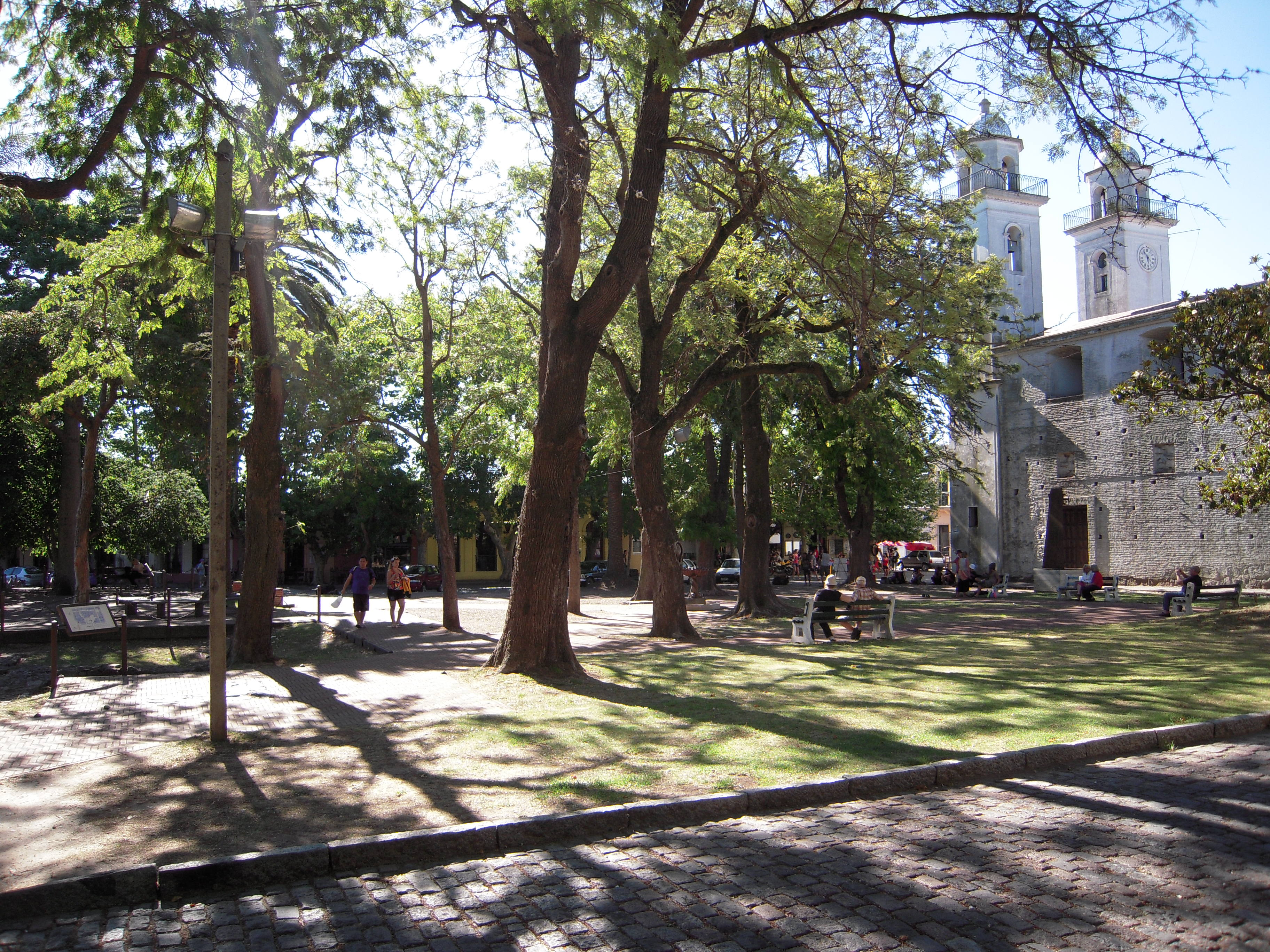 Plaza de Armas, with the church Iglesia Matriz, Colonia del Sacramento